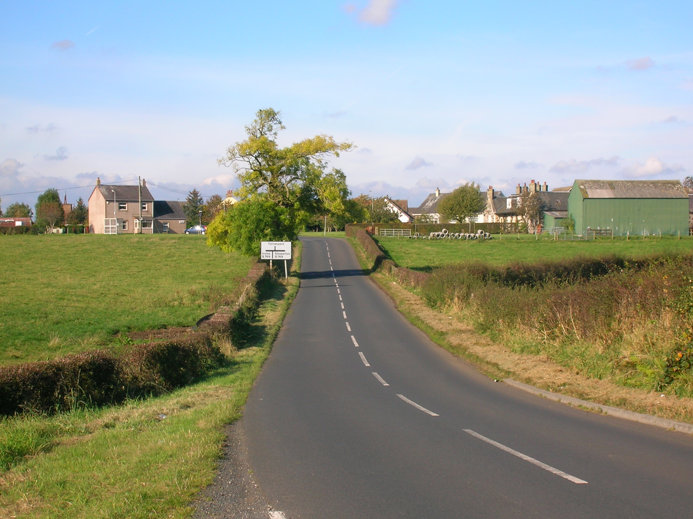 The village of Cunninghamhead in North Ayrshire, Scotland from the Kilmaurs road. October 2007. Roger Griffith.